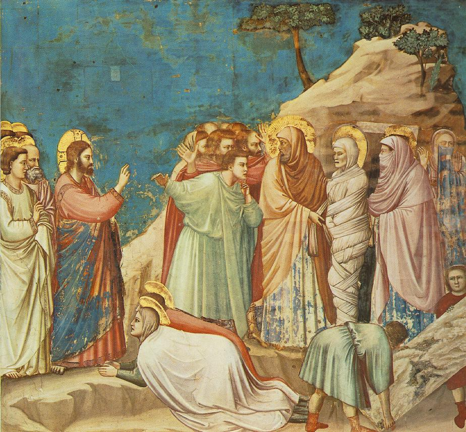 Life of Christ